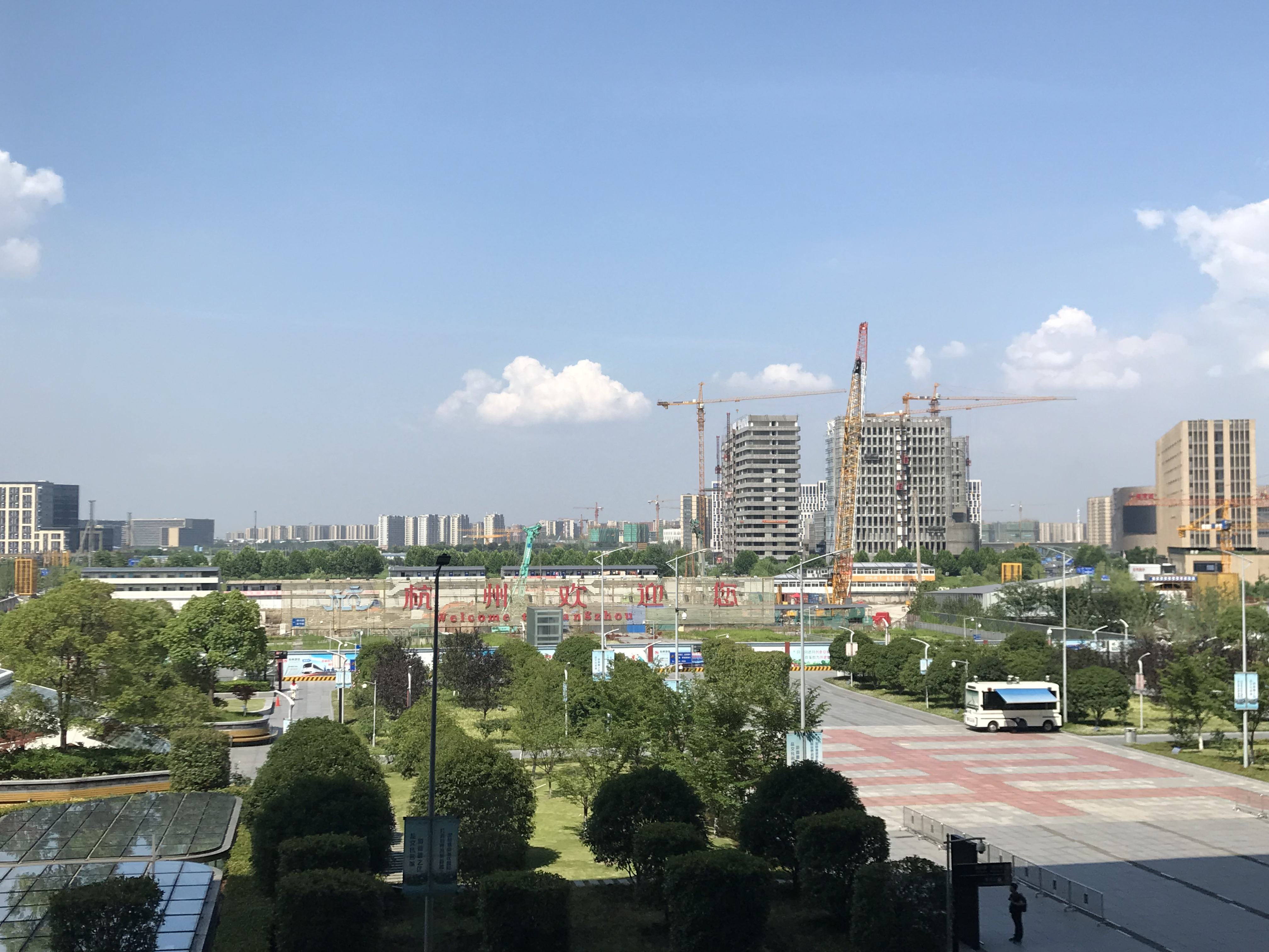 201806 L6 Construction at Hangzhoudong Station